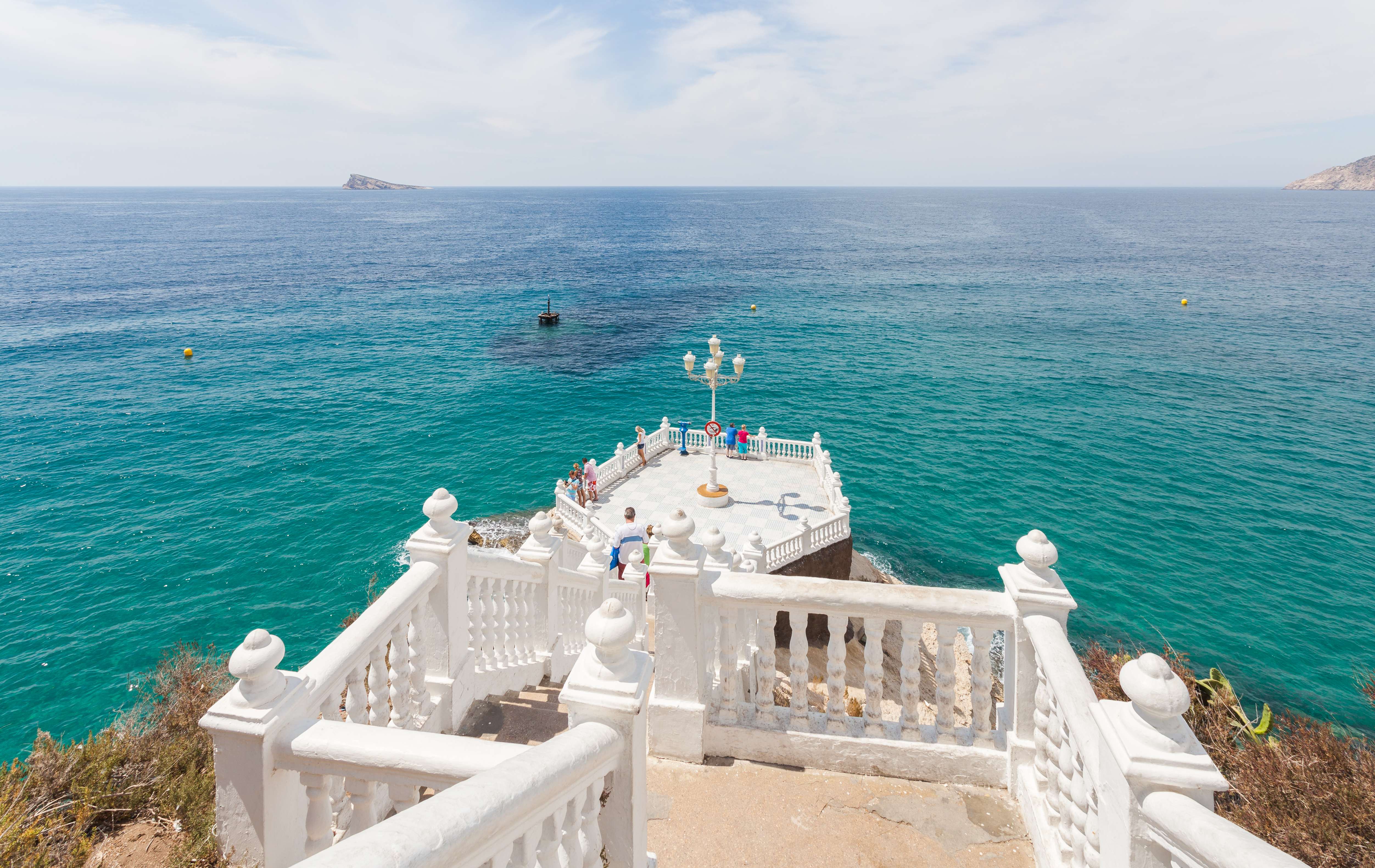 Balcón del Mediterráneo, Benidorm, Spain